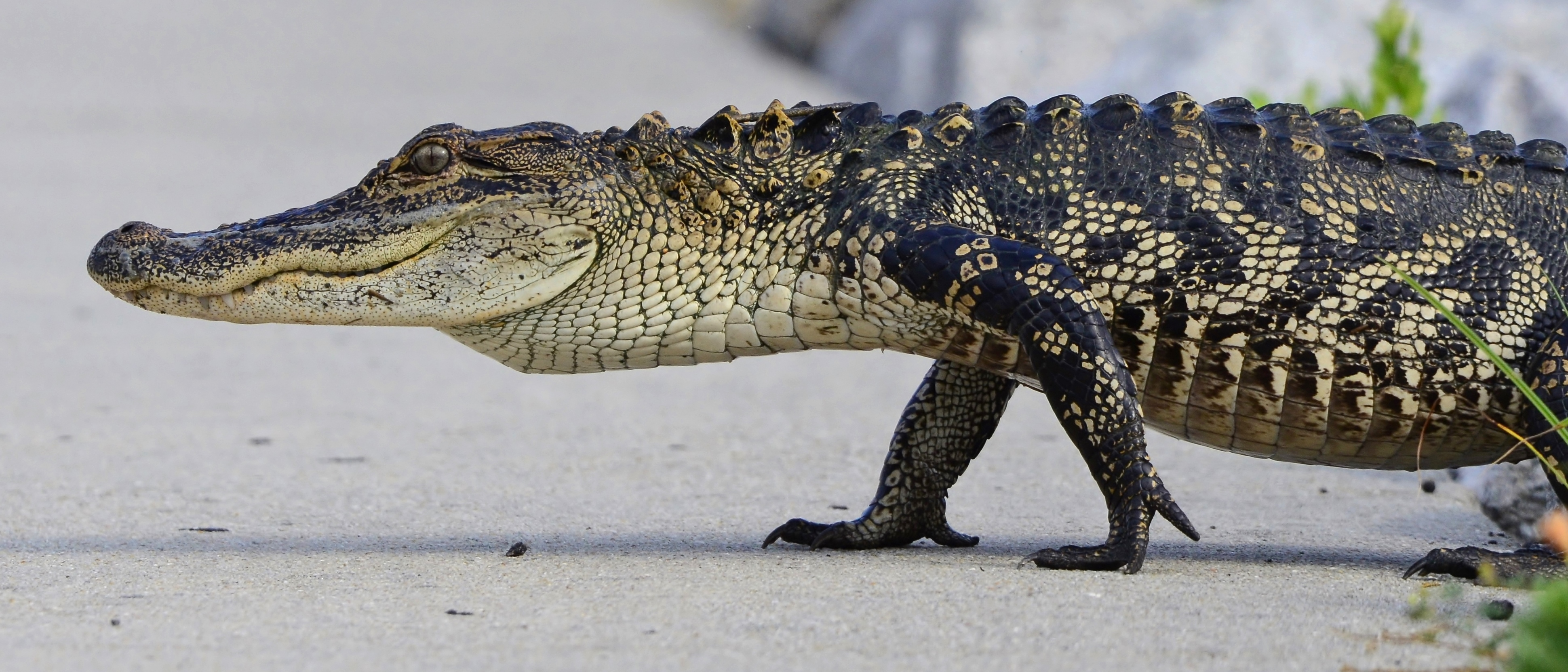 Huntington Beach State Park, Murrells Inlet, South Carolina, USA